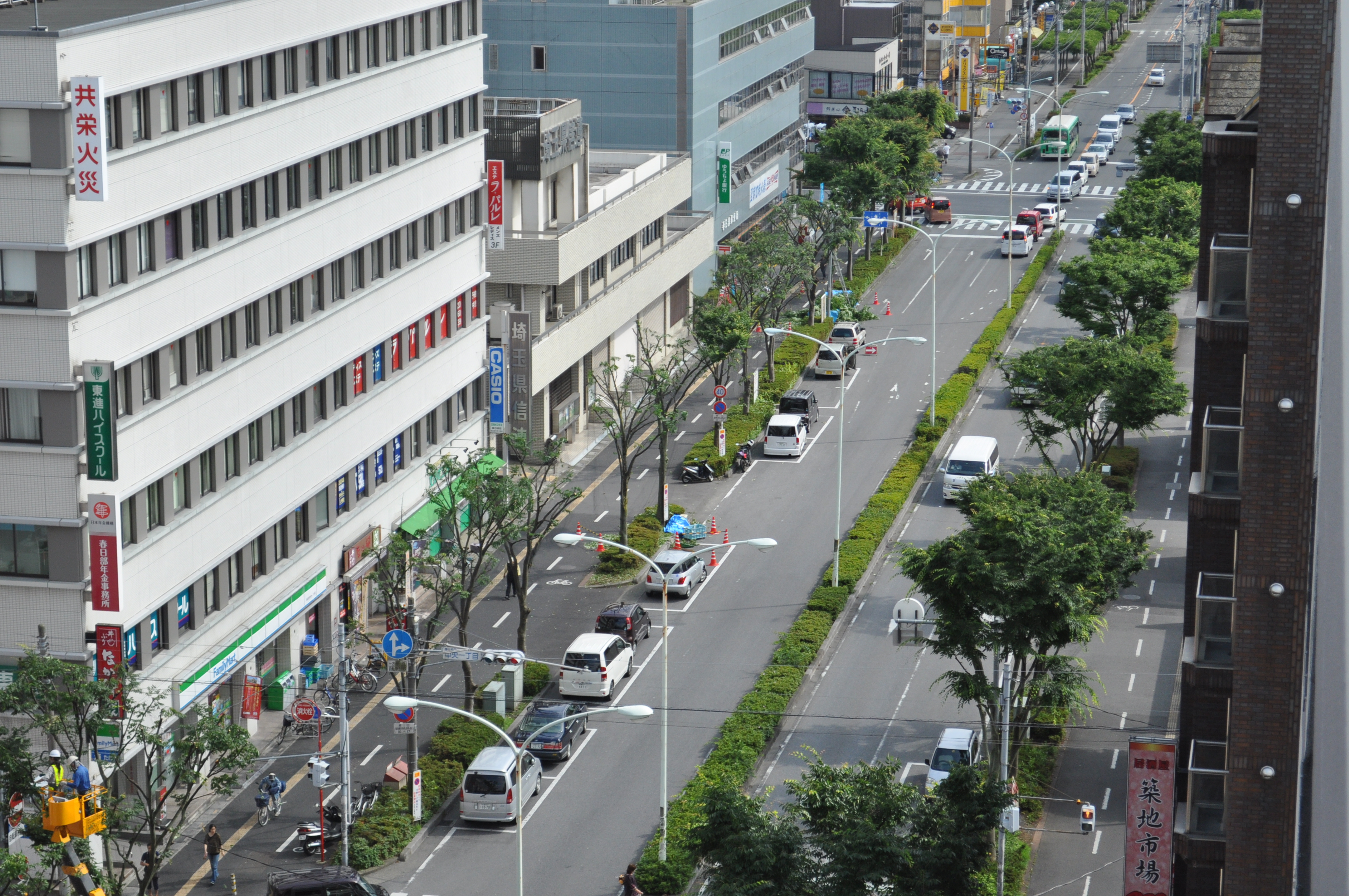 station road of the Kasukabe station